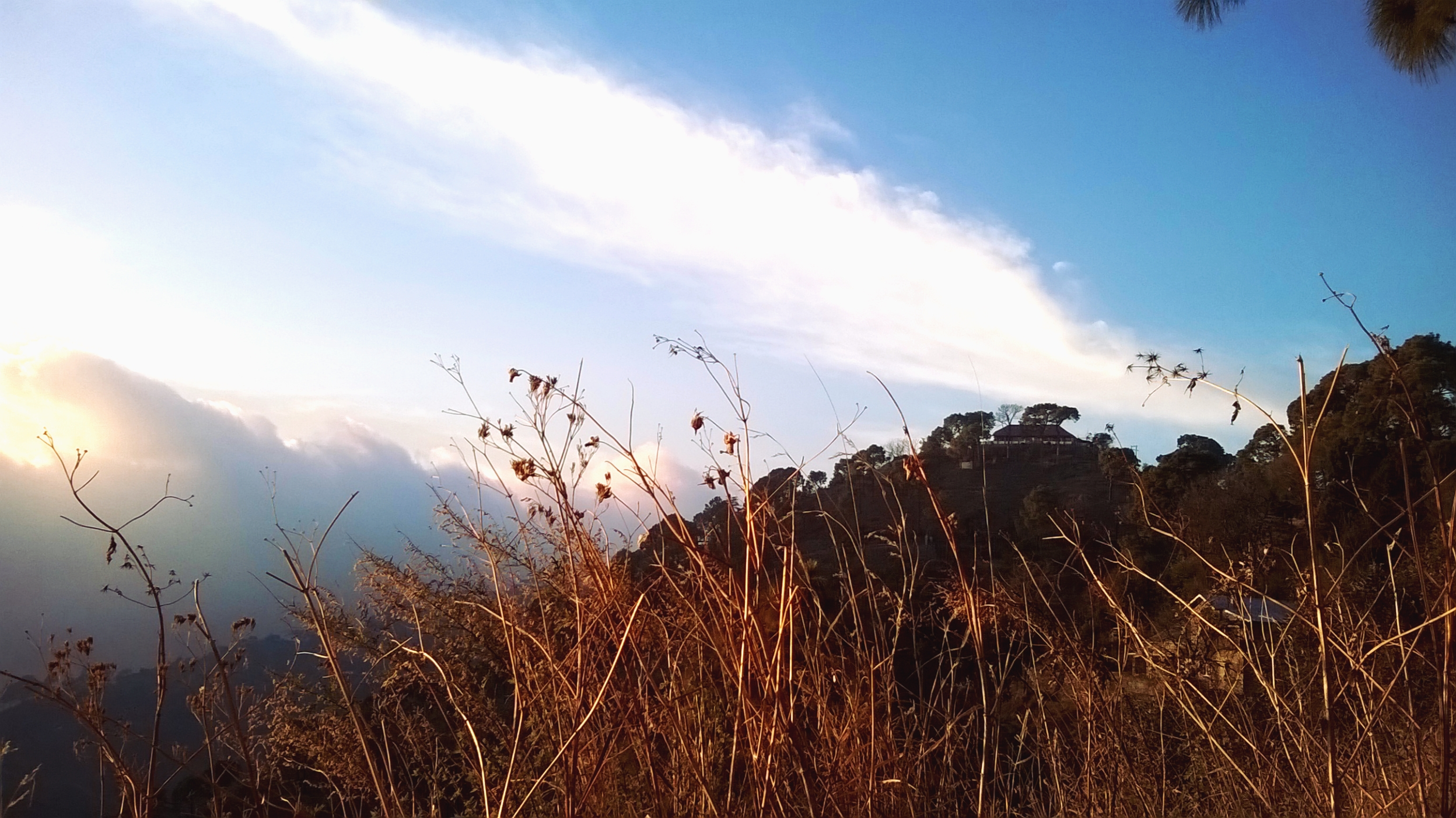 Own Work.